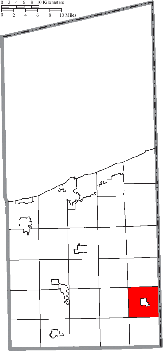 Map of the municipal and township boundaries of Ashtabula County, Ohio, United States, as of the 2000 census, with the location of Andover Township highlighted. Township borders are shown only in unincorporated areas in order to differentiate incorporated and unincorporated areas more clearly.